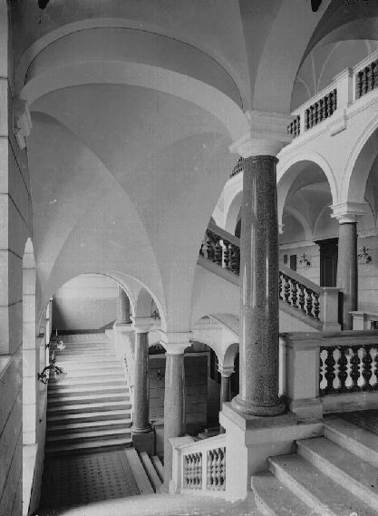 staircase at the College for Music and Drama in Leipzig (1900)